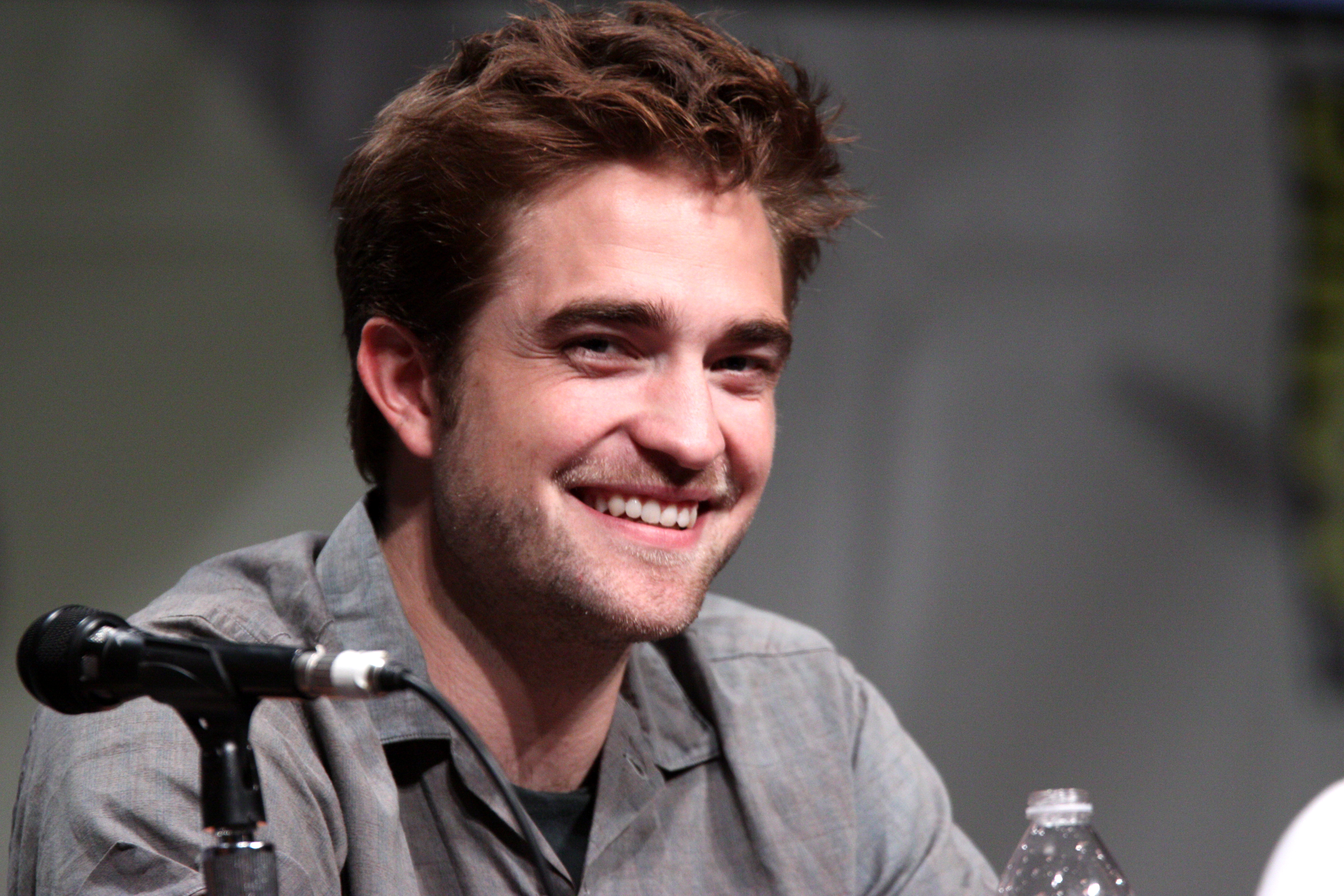 Robert Pattinson speaking at the 2012 San Diego Comic-Con International in San Diego, California.